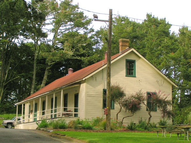 Ordnance storehouse (the last of the original buildings), Fort Miley Military Reservation, San Francisco, California, USAFort Miley (p4070711)